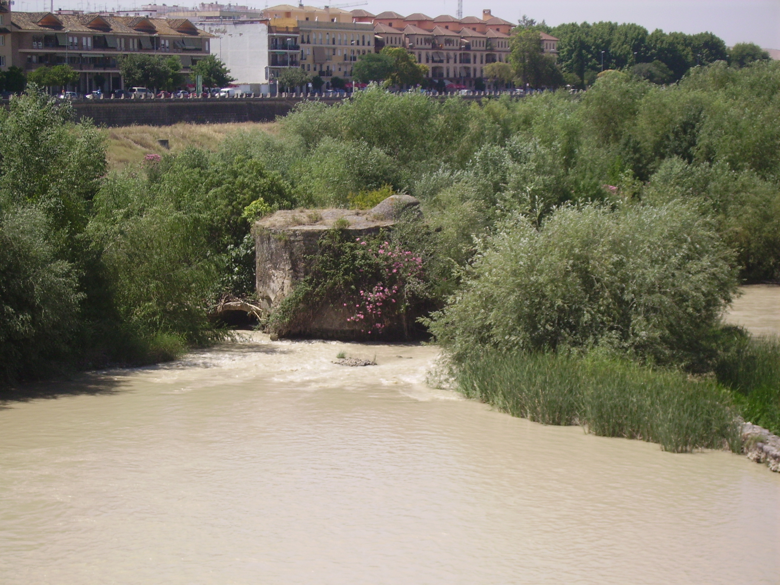 Enmedio Watermill, in Córdoba (Spain).